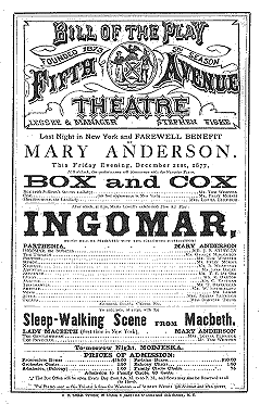 Advertisement for an 1877 New York revival of Box and Cox. This 1847 play by John Maddison Morton was the basis for Arthur Sullivan's Cox and Box